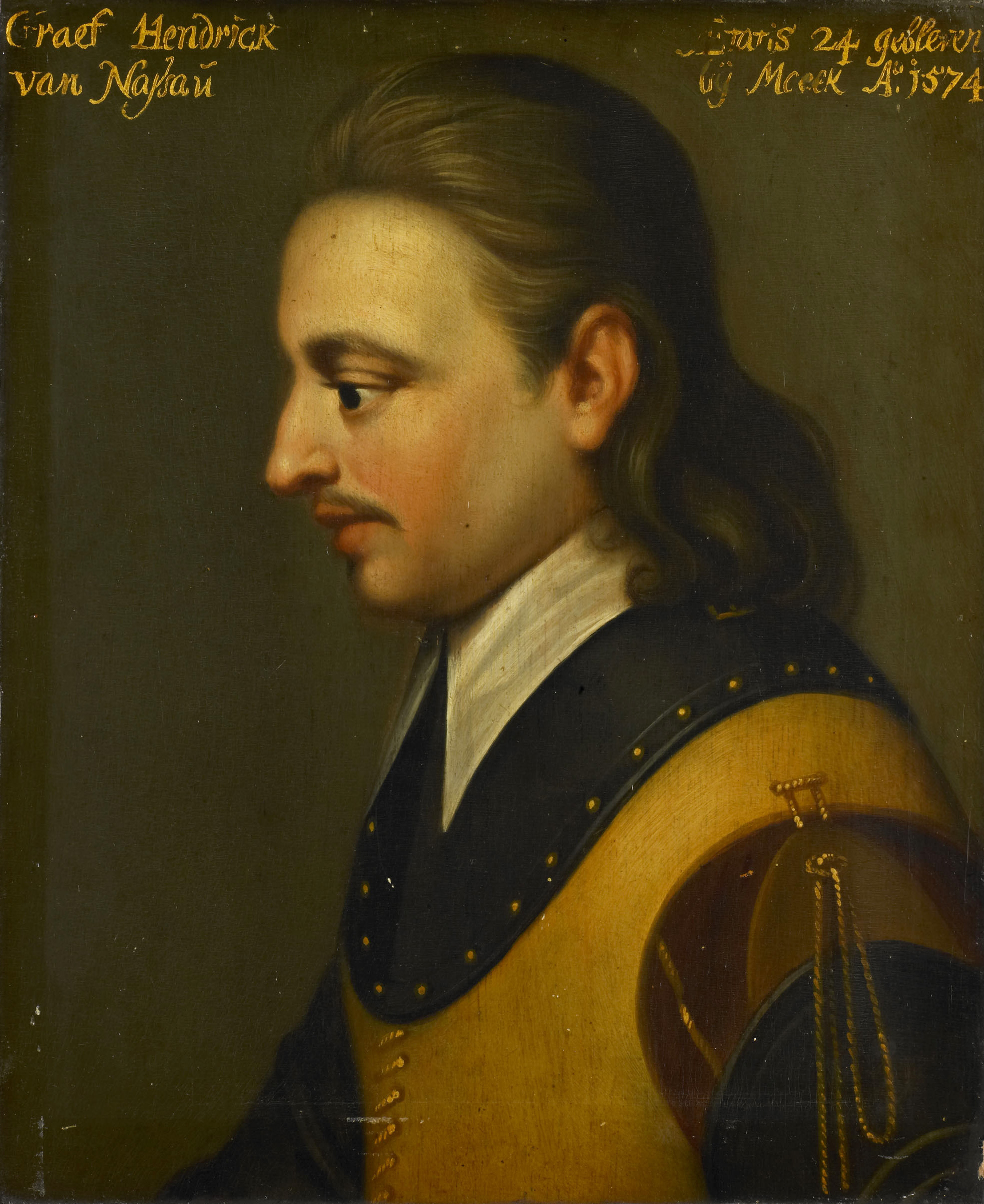 Part of the Leeuwarden series, a series of portraits of military officials from the Eighty Years' War as well as members of the House of Orange-Nassau, first documented in 1633 in the Stadhouderlijk Hof (Stadholder's Court) in Leeuwarden (see Object history).